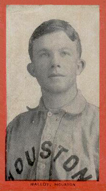 Alex Malloy baseball card